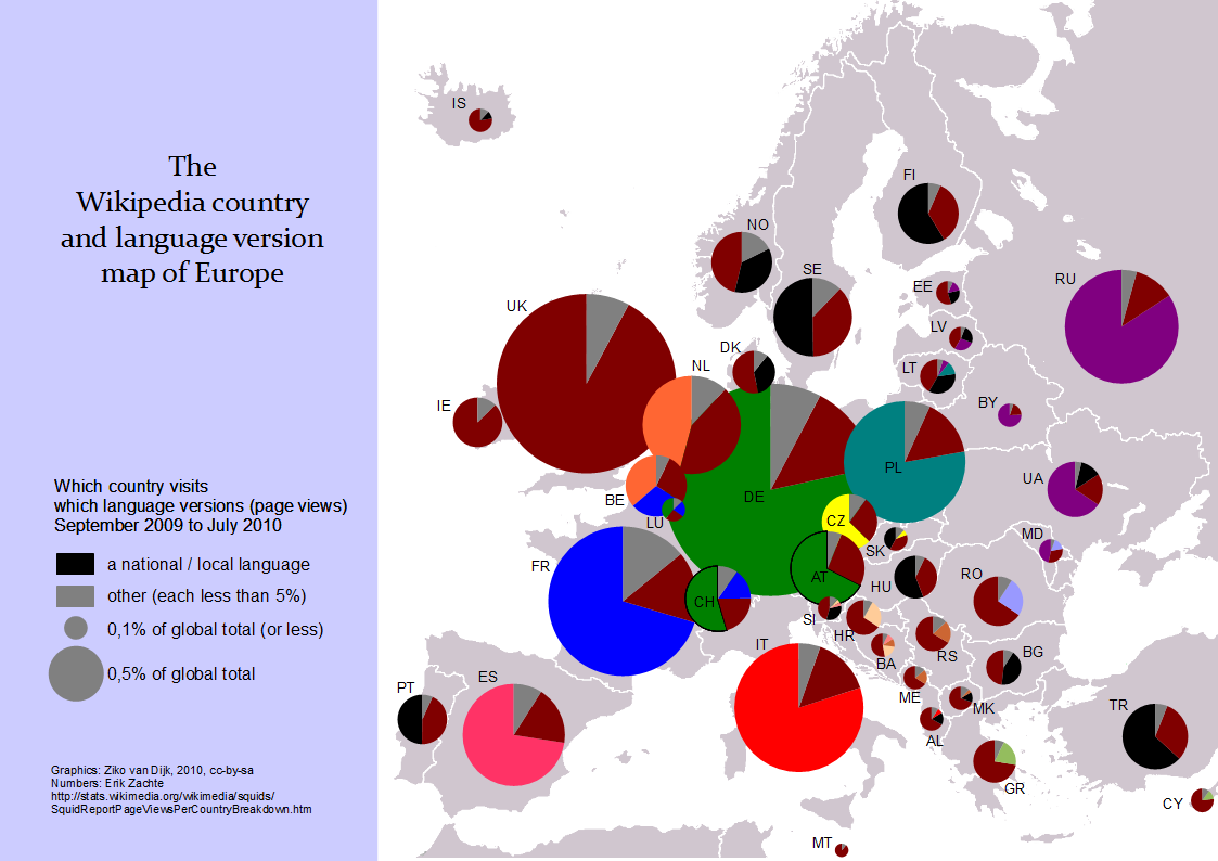 The Wikipedia country and language version map of Europe. There is also a PDF version.